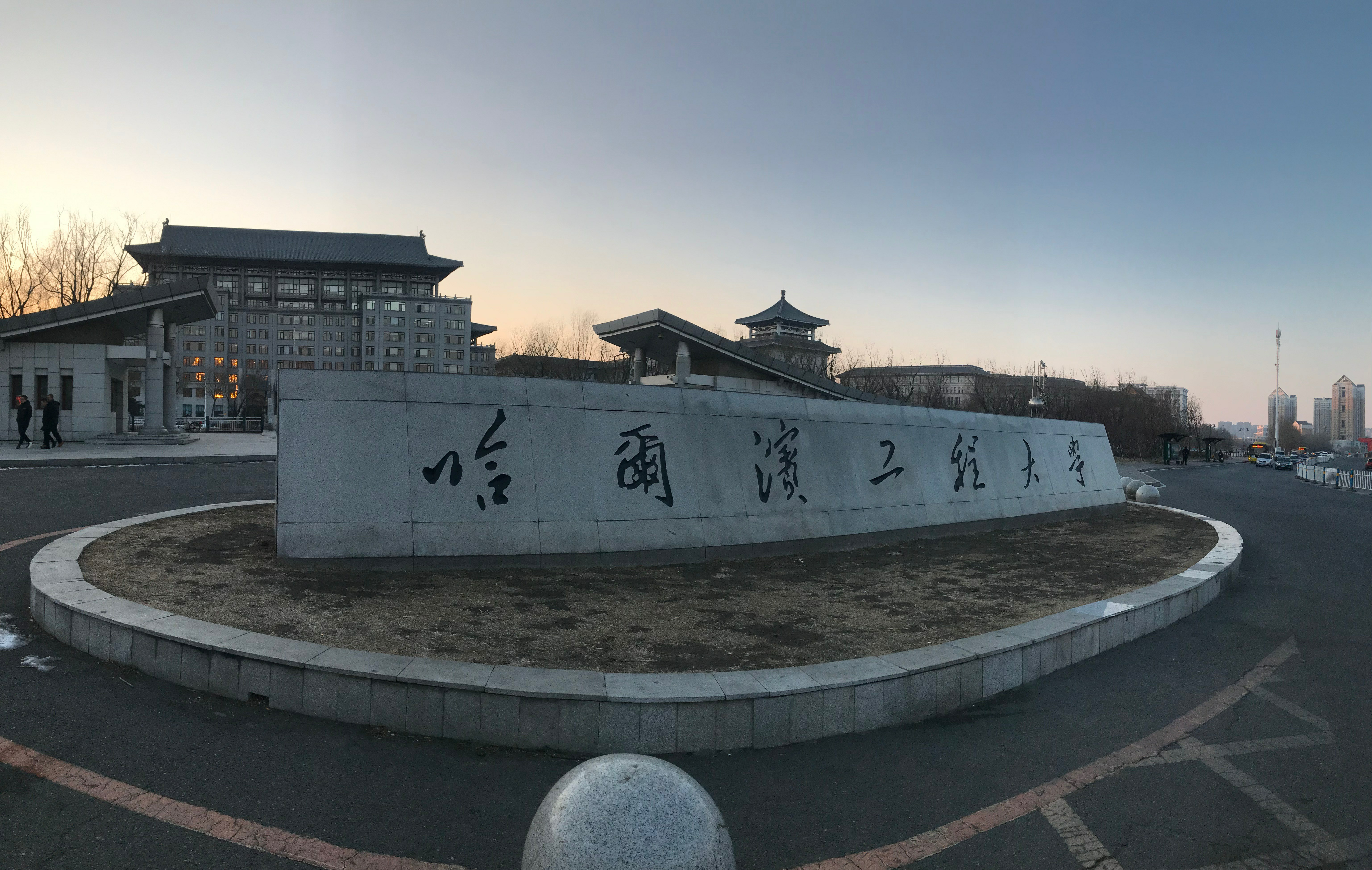 Harbin Engineering University - Monument of School Name at East 2 Gate